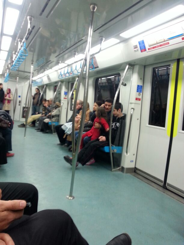 Inside a Marmaray commuter train vehicle